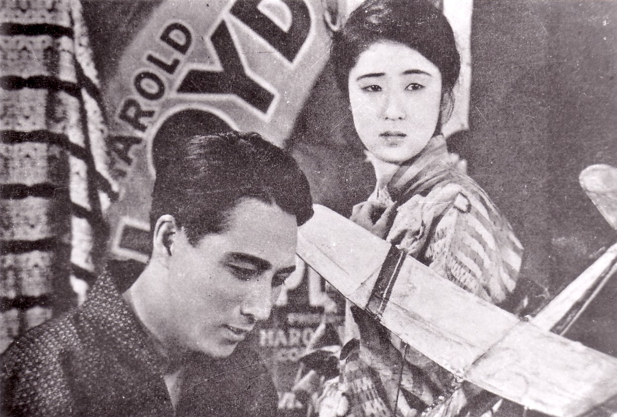 I Graduated, But... (大学は出たけれど) is a 1929 Japanese silent film directed by Yasujirō Ozu.